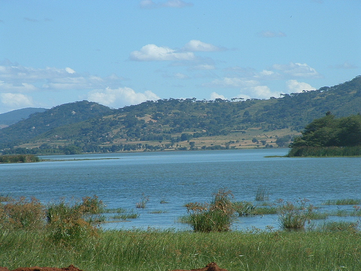 Babati Lake, Tanzania